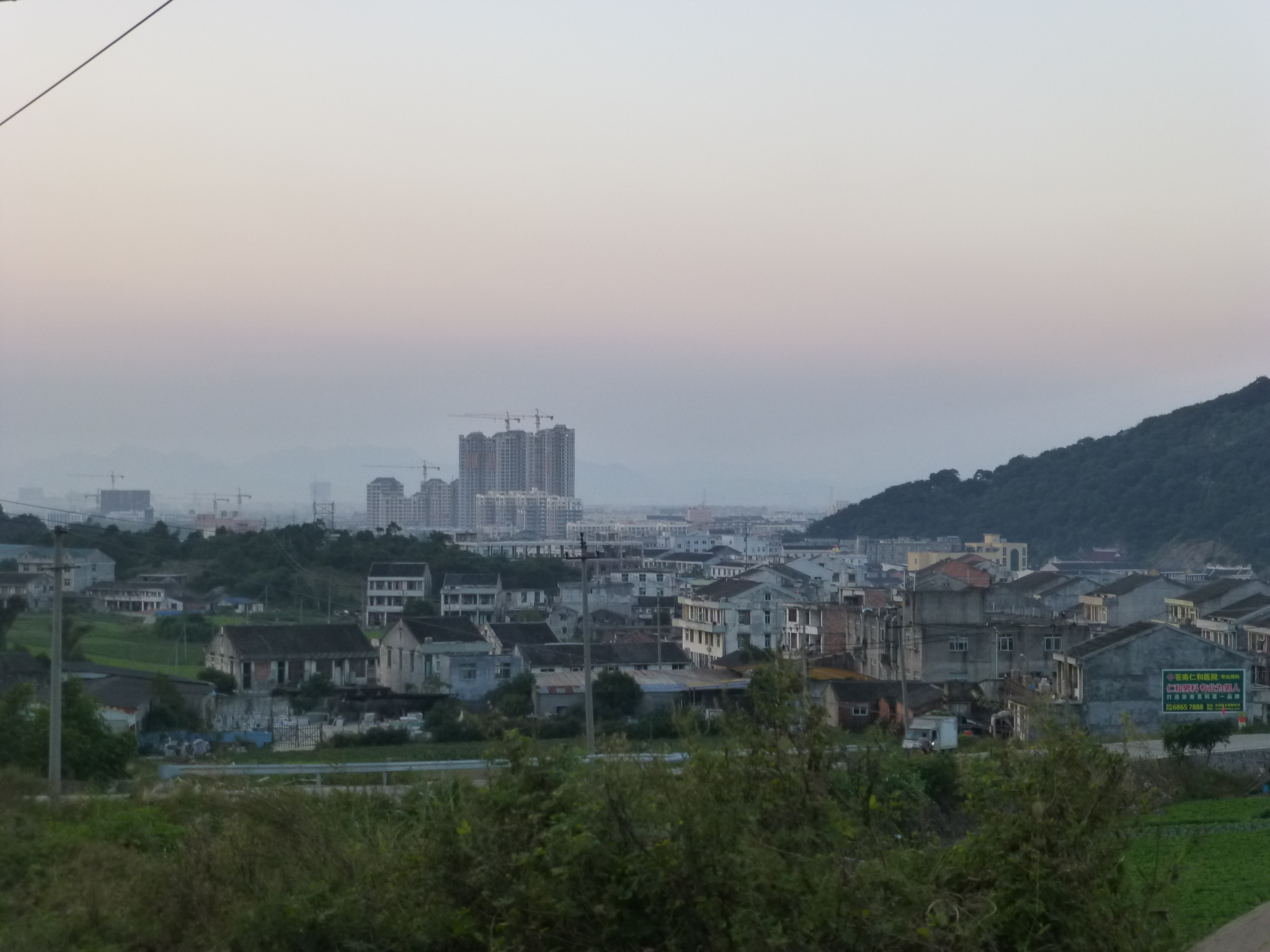 Jinxiang Town, Cangnan County, Zhejiang, China. Pictures taken on the south-eastern outskirts of the central town.